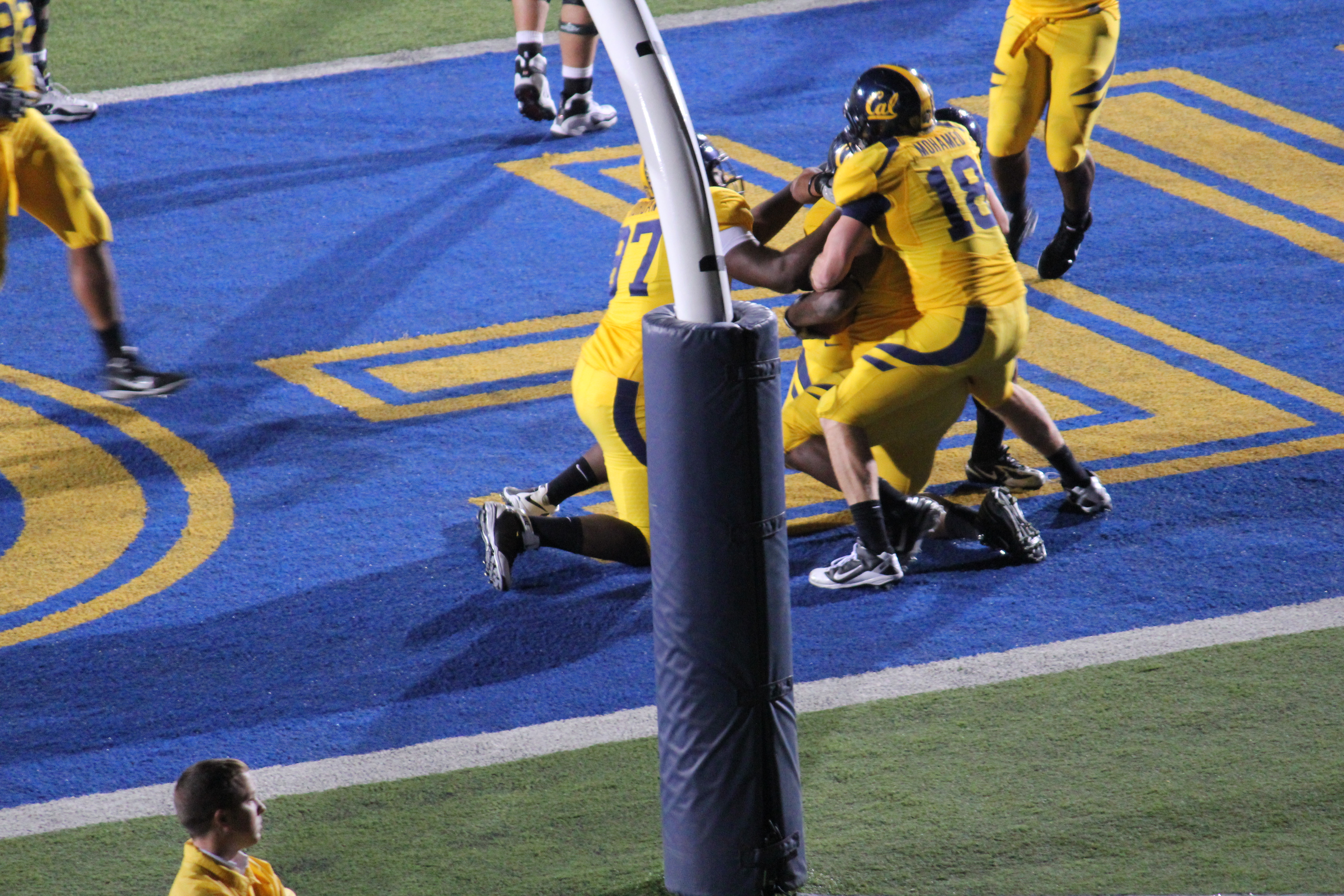 Cal nose guard Derrick Hill scores a touchdown on a fumble recovery during a home game against the Oregon Ducks. The Ducks won 15-13.